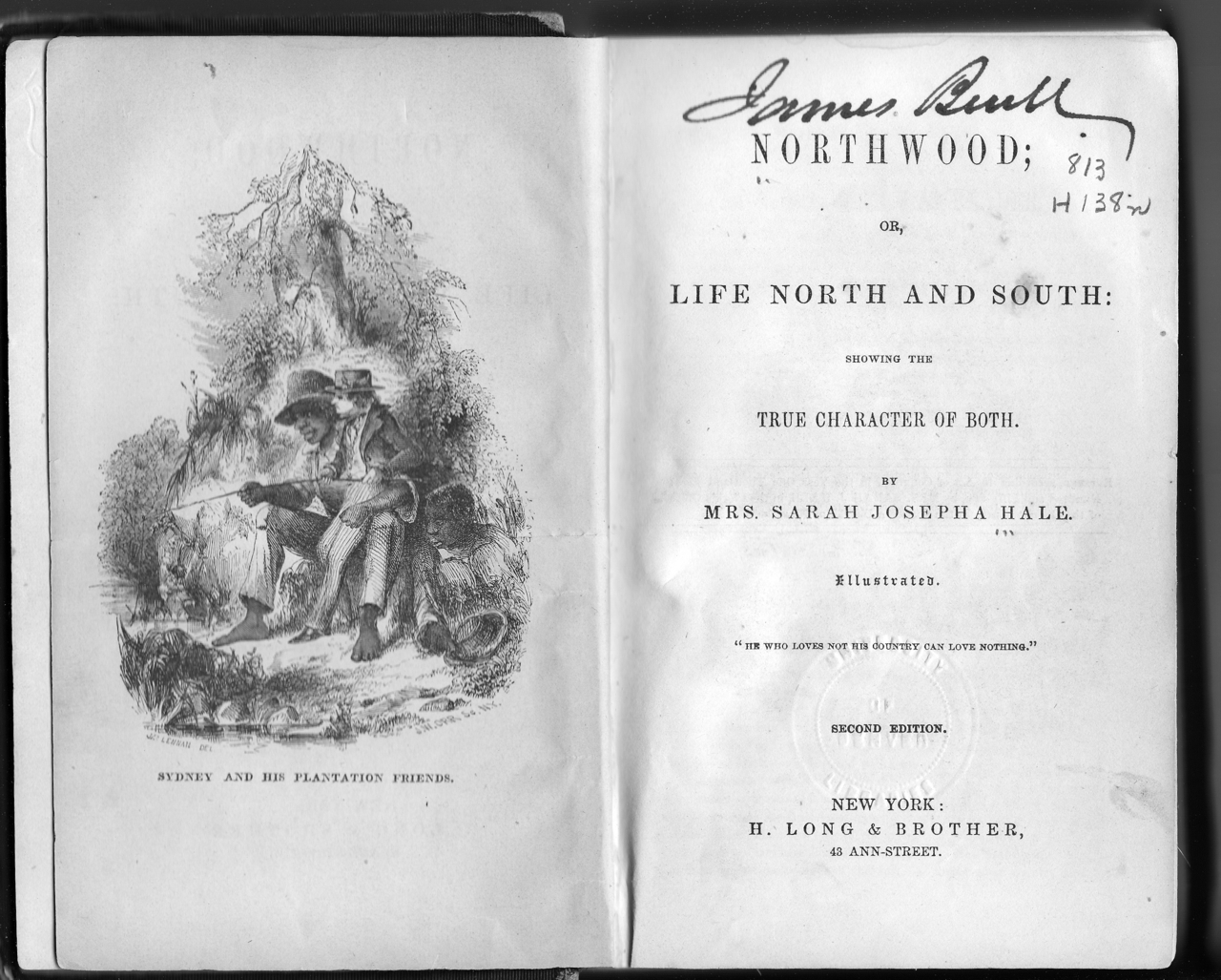 This is the fronts piece of the 2nd edition of Sarah Hale's anti-slavery novel, Northwoods: Life North and South.